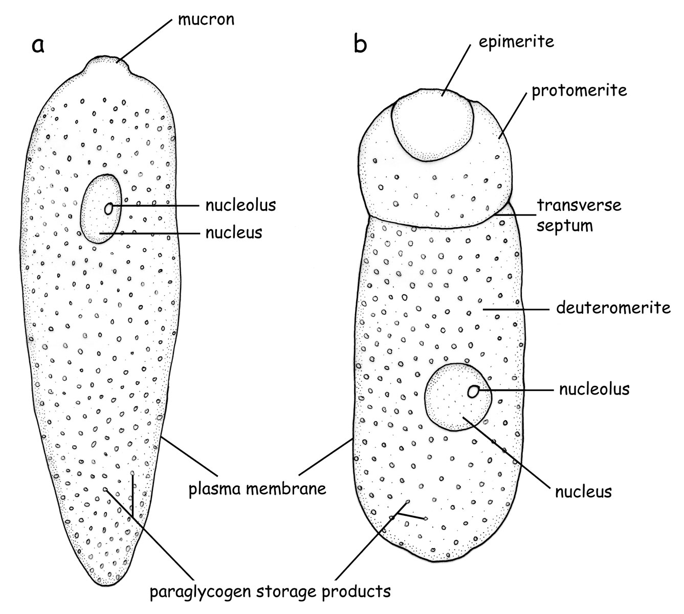 Sketch of the morphology of an aseptate (a) and a septate (b) gregarine